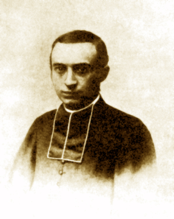 Abbé Breuil, French archaeologist, anthropologist, ethnologist and geologist, known for his studies of cave art.